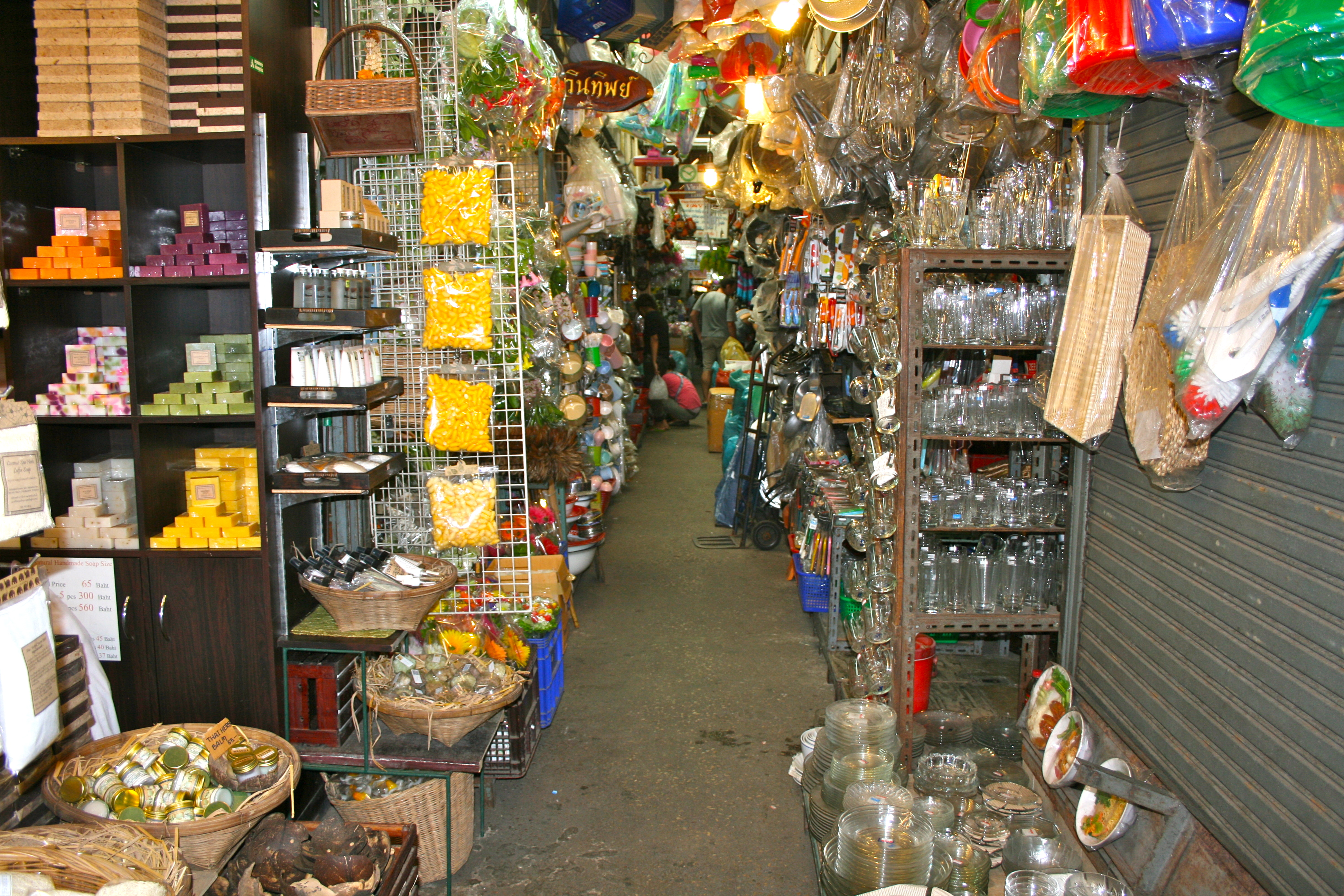 Chatachuk Market is the world's largest market which takes place every Saturday and Sunday with over 15,000 stalls. This photo was taken on Friday afternoon just as the market was setting up